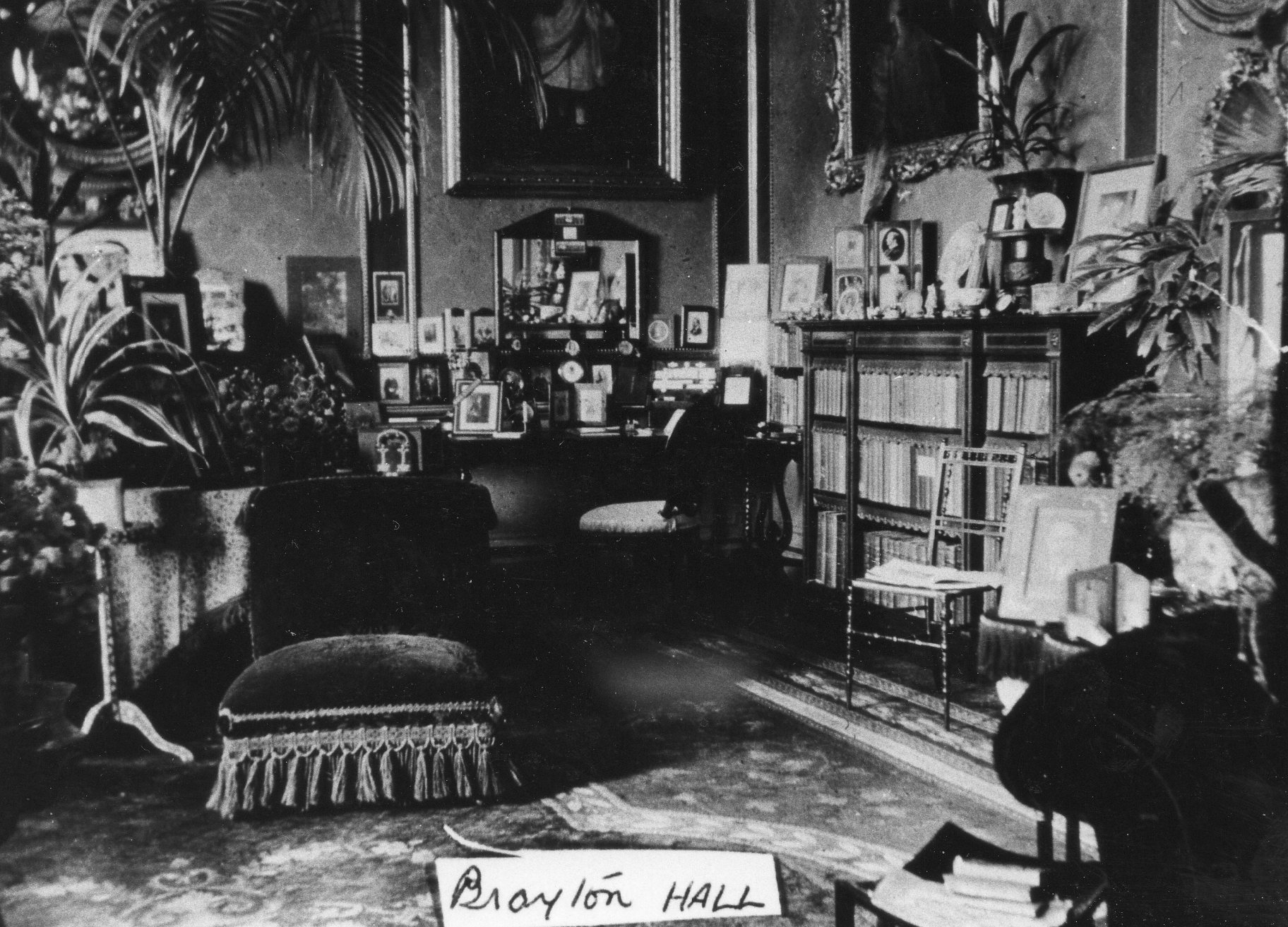 Photo